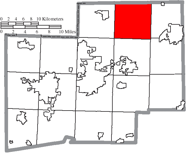 Map of the municipal and township boundaries of Stark County, Ohio, United States, as of the 2000 census, with the location of Marlboro Township highlighted. Township borders are shown only in unincorporated areas in order to differentiate incorporated and unincorporated areas more clearly.